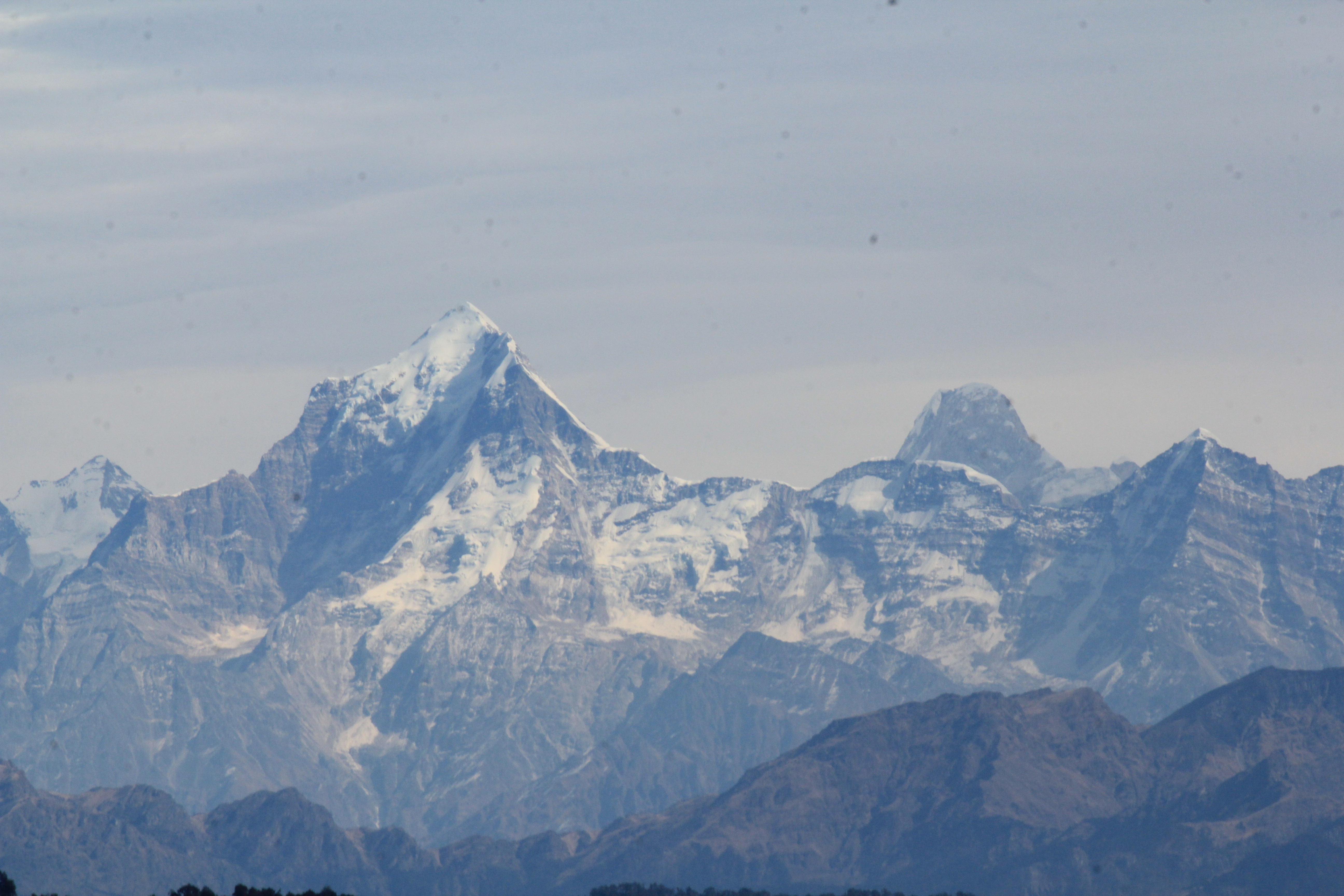 View of Himalayan peaks from Kartik Swami Temple